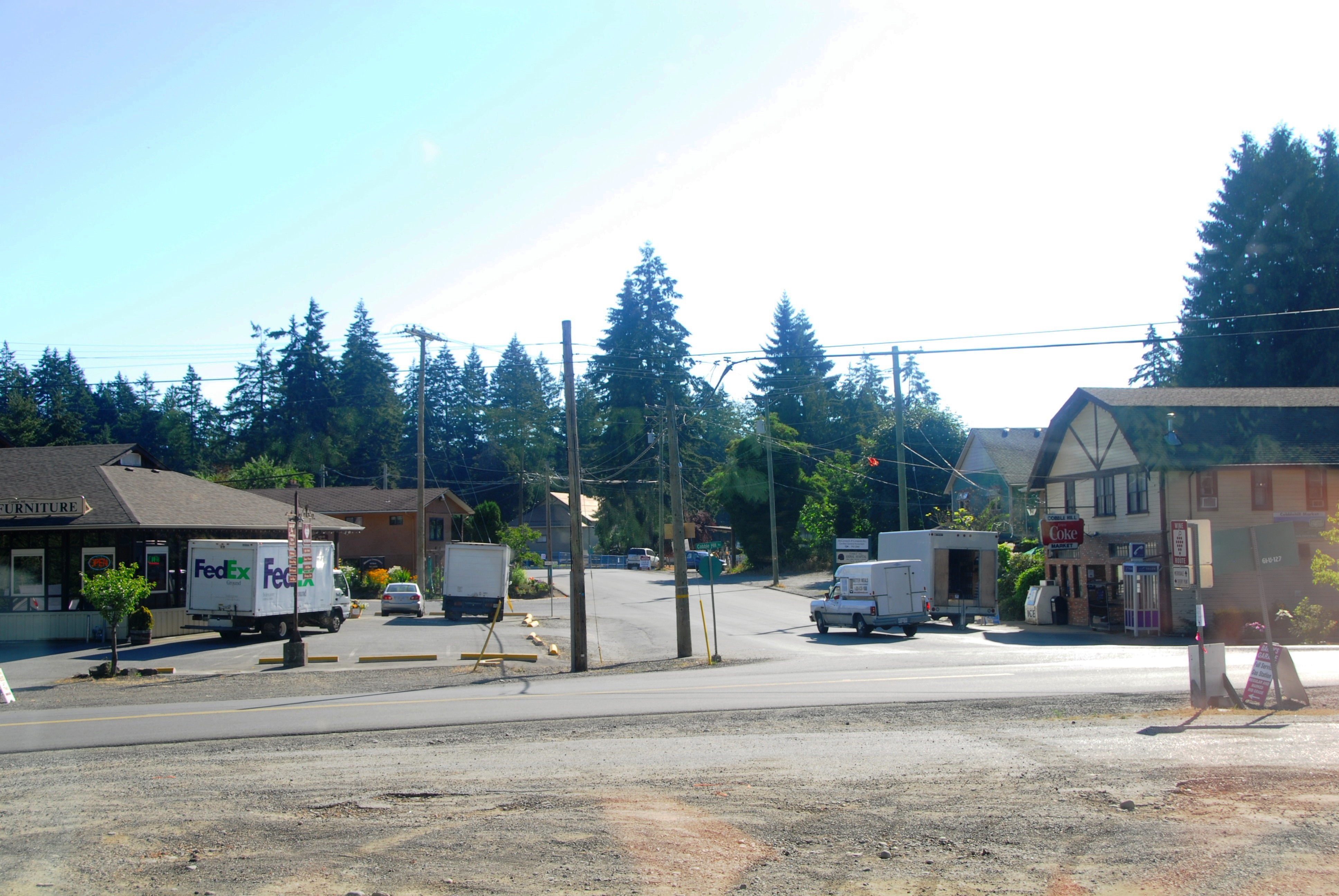 Downtown Cobble Hill, British Columbia, Canada, as seen from the Malahat VIA Rail service.